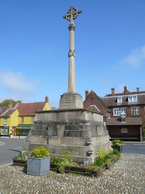 War Memorial War Memorial in Holt, Norfolk to 1st & 2nd World wars, Korea 1952 & Northern Ireland 1991